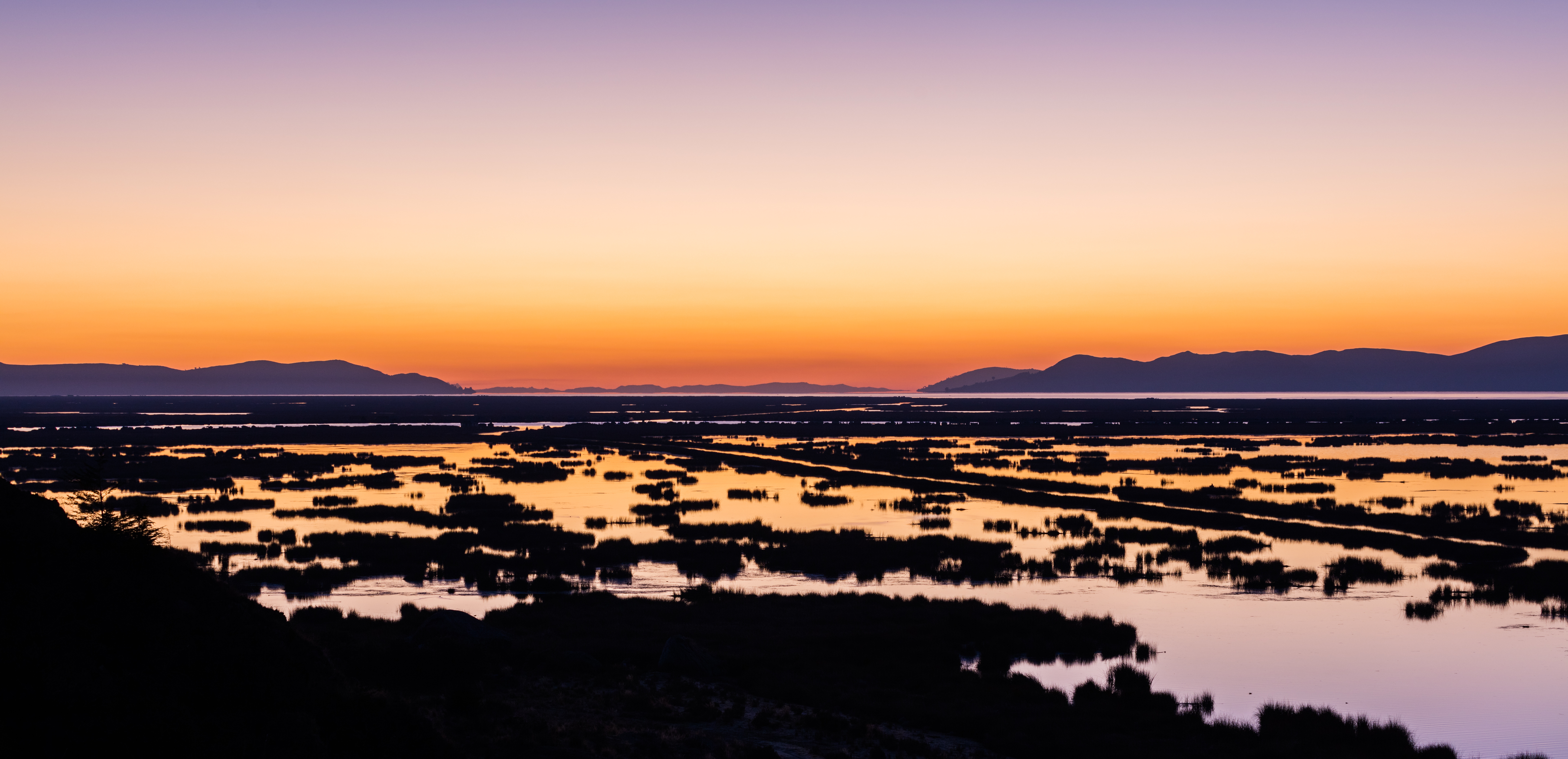 Sunrise in the Lake Titicaca, near Puno, in the Peruvian Andes, not far from Bolivia. The lake is, by volume of water, the largest in South America and, with a surface elevation of 3,812 metres (12,507 ft), it's considered the highest navigable lake in the world. The lake has a maximum length of 190 kilometres (120 mi) and width of 80 kilometres (50 mi) and a surface of 8,372 square kilometres (3,232 sq mi), whereas the water volume is 893 cubic kilometres (214 cu mi) with a max. depth of 281 metres (922 ft) and an average depth of 107 metres (351 ft).